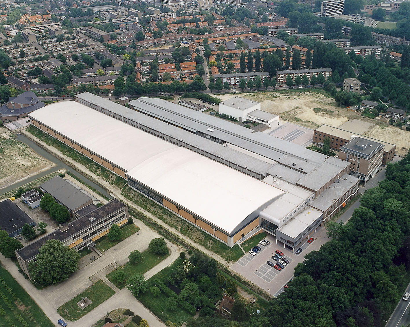 MARIN by air